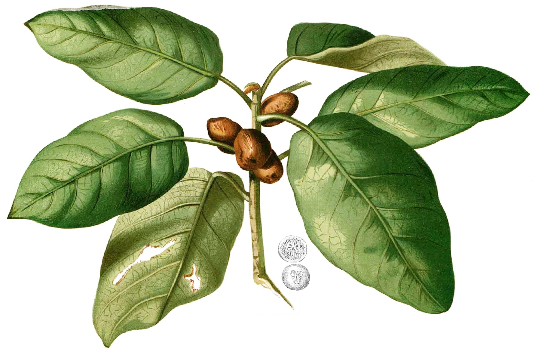 Plate from book